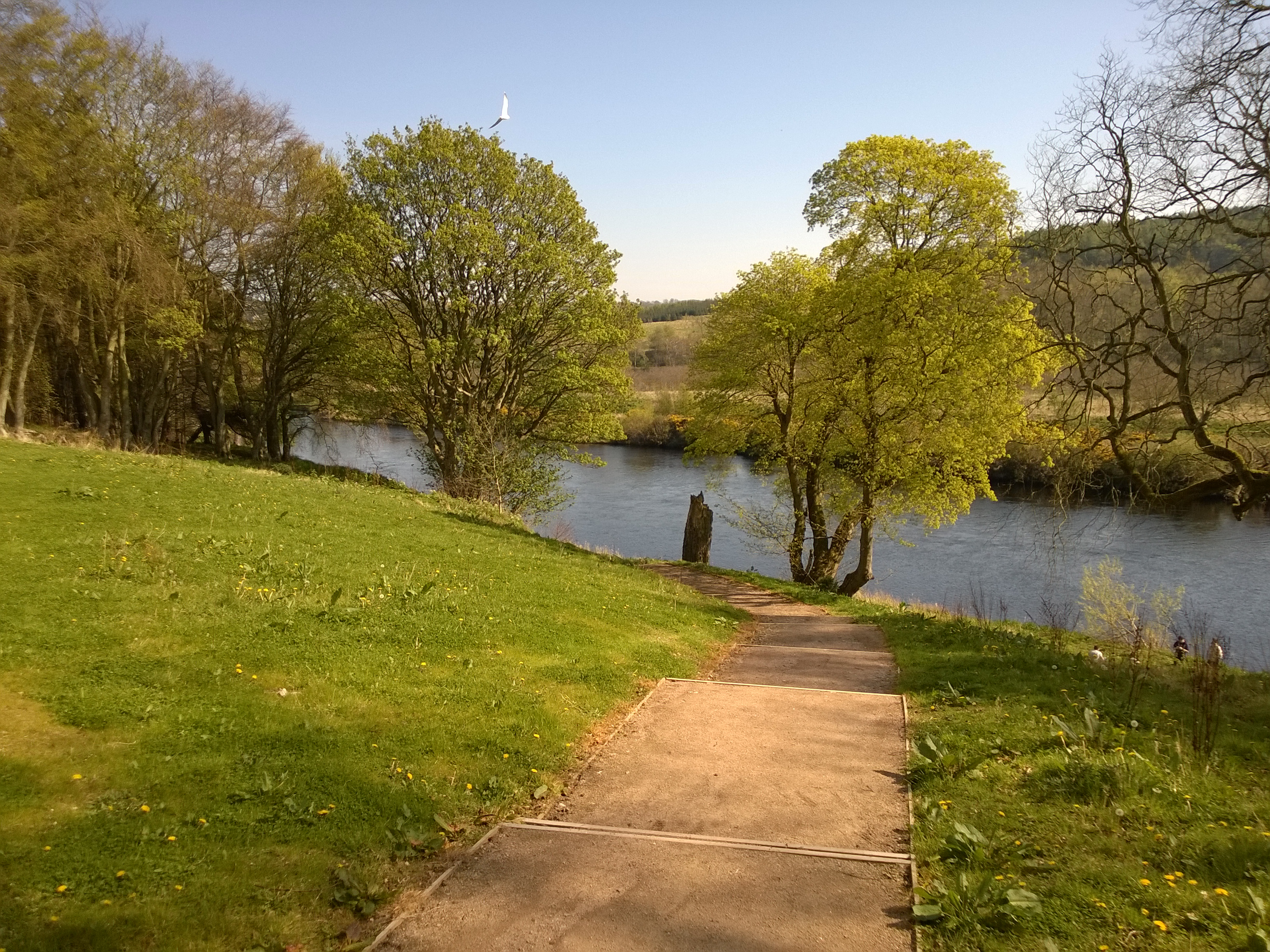 The Robert Gordon University, Aberdeen, Scotland: River Dee seen from path that leads to the riverbank from the main plaza by the Riverside East building.